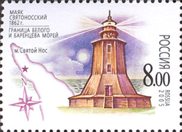 Stamp of Russia. Lighthouses of Barents and White seas.